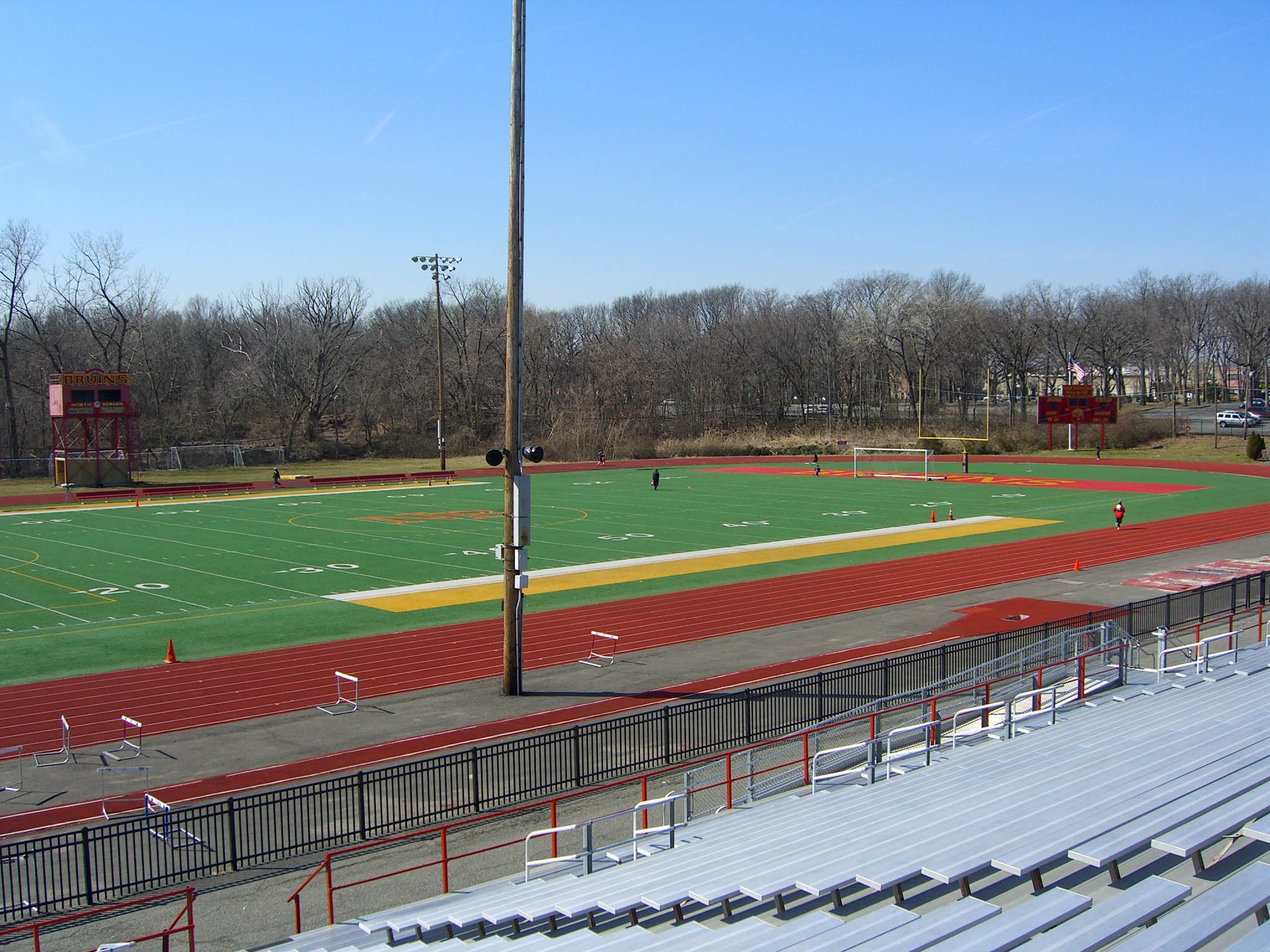 Bruins Stadium, located in James J. Braddock Park in North Bergen, New Jersey. The Stadium is home field of North Bergen High School. This photo was created by Luigi Novi. It is not in the public domain, and use of this file outside of the licensing terms is a copyright violation.